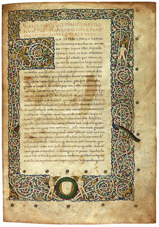 Cicero, Tusculanae disputationes. Latin, illuminated manuscript on vellum. Naples, late 1450s or early 1460s.